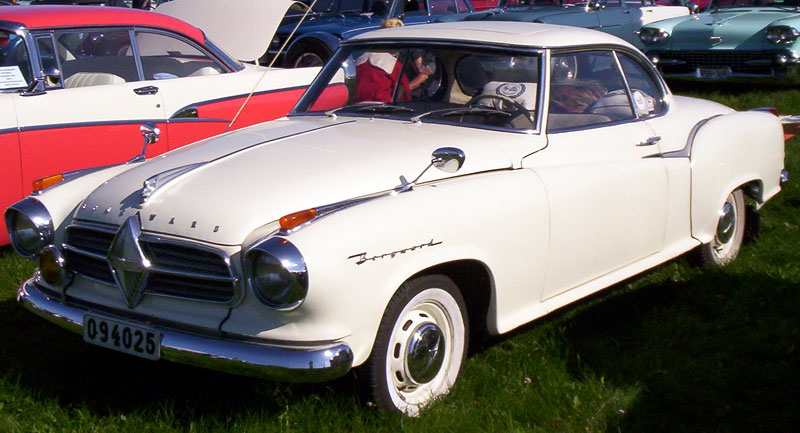 Borgward Isabella Coupé